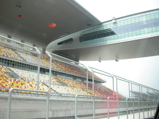 Shanghai International Circuit